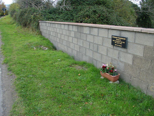 Here doesn't lie... Road accidents in Ireland are often marked with local memorials - in this instance, a 23 year old motorcyclist was killed at 2345 in a single-vehicle collision in Kiltiernan, Co Dublin.